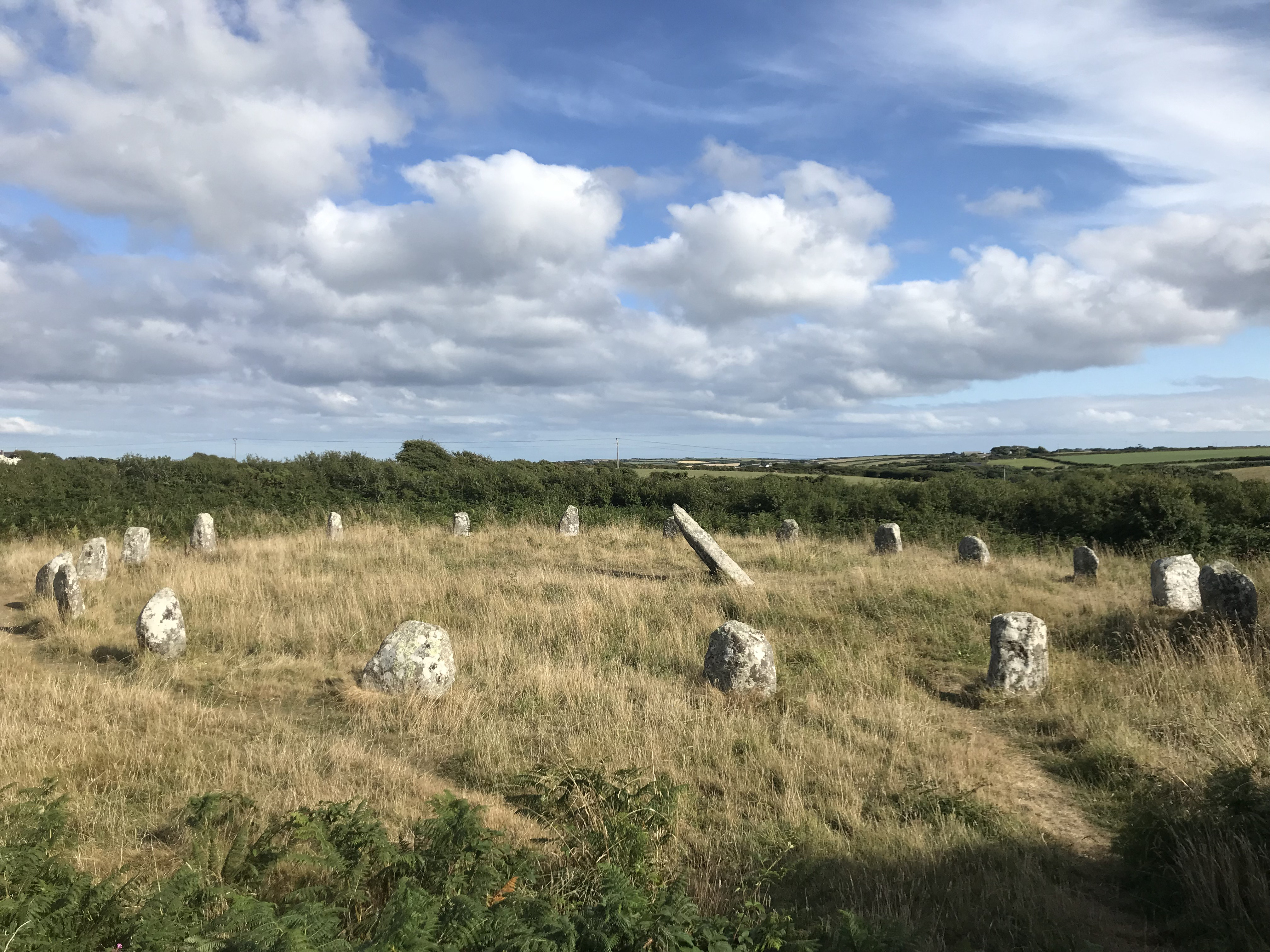 Boscawen-ûn stone circle in Cornwall UK